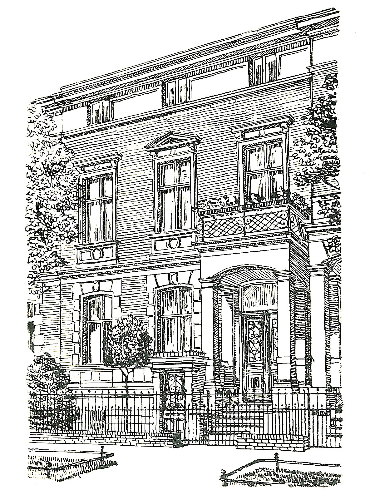 Former house of student fraternity Corps Marchia Berlin, Englische Straße 14